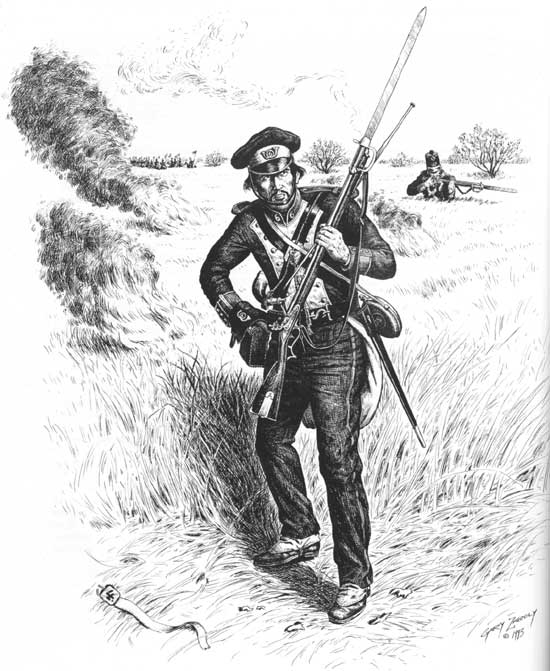 A Cazadore in action at Palo Alto. The rifleman in the foreground is of the Mexican Sixth line regiment, as indicated by the number "6" on the infantry bugle insignia, the latter worn both on his barracks cap band and on his cartridge box cover flap. Following illustrations by Hefter et al. (1958), the rifleman's uniform is distinguished by white lapels, a matching white band on his barracks cap, white turnbacks on his tailcoat, and faced with a colored plastron having plain brass buttons. White spatterdashes protect his shoes from the rain and mud. Black leather crossbelts are centered by a brass plate. Attached to the plate is a chain which secures a wire vent pricker and pan brush, tools used to service his rifle. His canteen is a U.S. made tin model, and he is armed with a British made Baker rifle. To his waistbelt is attached the Baker snake design buckle. At the rifleman's feet are fragments of paper cartridges and a waistbelt with the brass buckle of the Mexican Fourth line regiment. Burning cordgrass in the background, the result of wadding from U.S. cannonfire, partly obscures a detachment of Mexican cavalry on the horizon. Another cazadore, wearing a leather shako, is nearby. Illustration by Gary Zaboly.